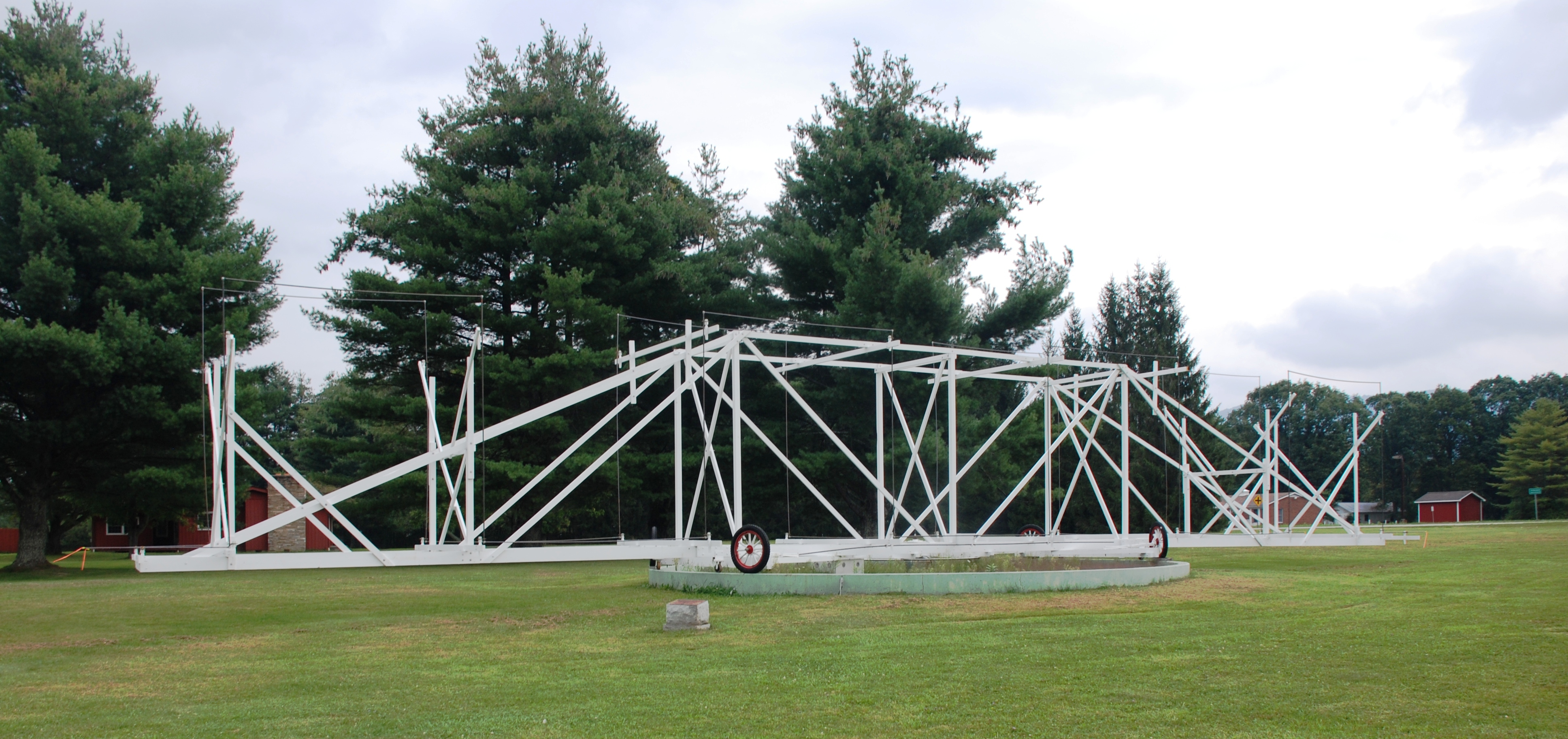 Reconstruction of the directional antenna used in the discovery of radio emission from space by Karl Guthe Jansky at Bell Telephone Laboratories Holmdel, New Jersy, in 1932, which began the field of radio astronomy. It is an 8 element Bruce array (a type of curtain array) resonant at 14 MHz, consisting of 8 wire dipoles in front of a wire screen reflector. Now at National Radio Astronomy Observatory in Green Bank, West Virginia.